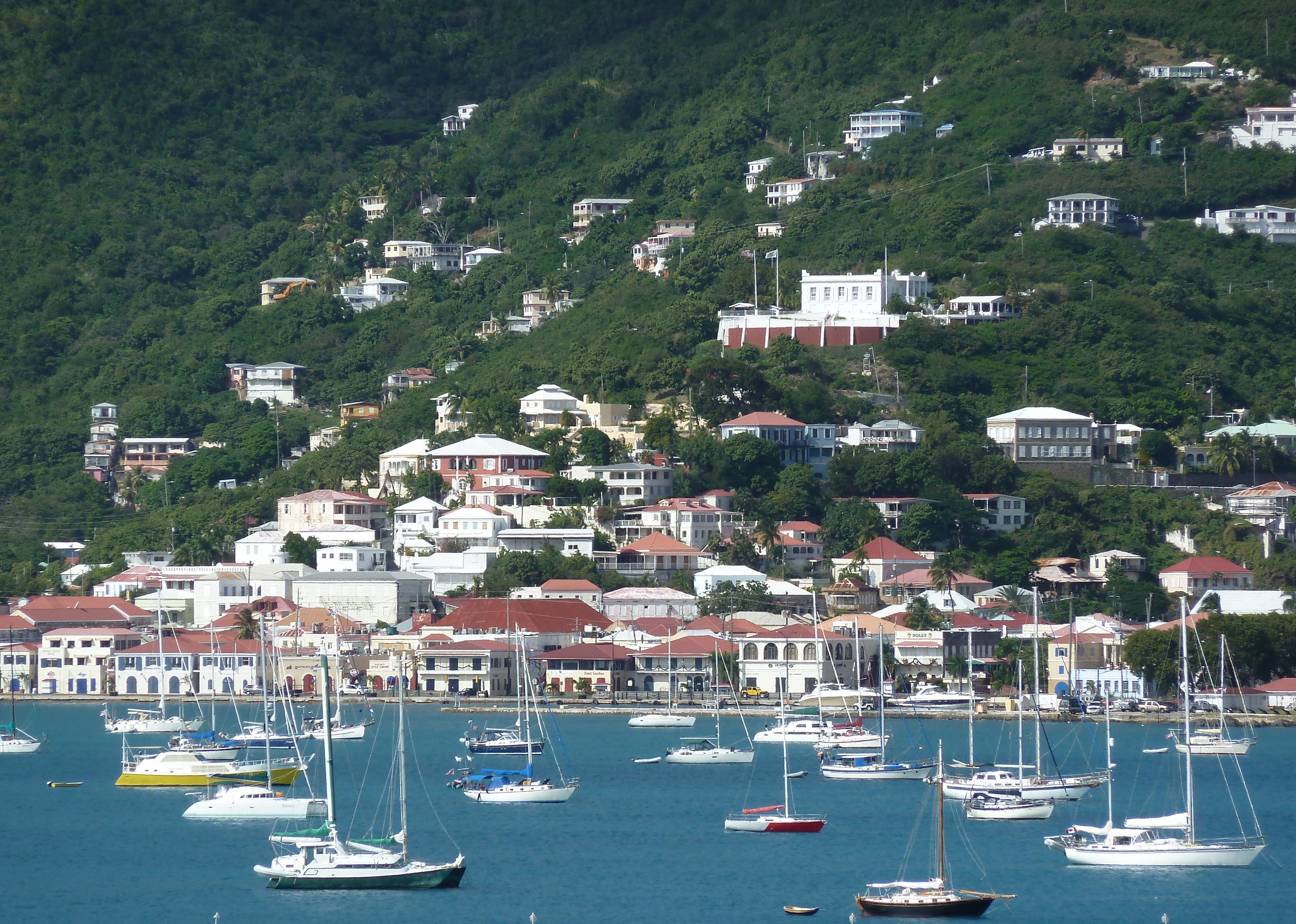 Waterfront, Charlotte Amalie, St. Thomas, USVI, Dec 2011.